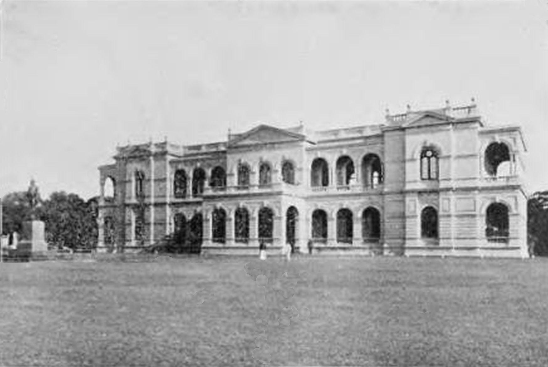 Colombo city museum 1896